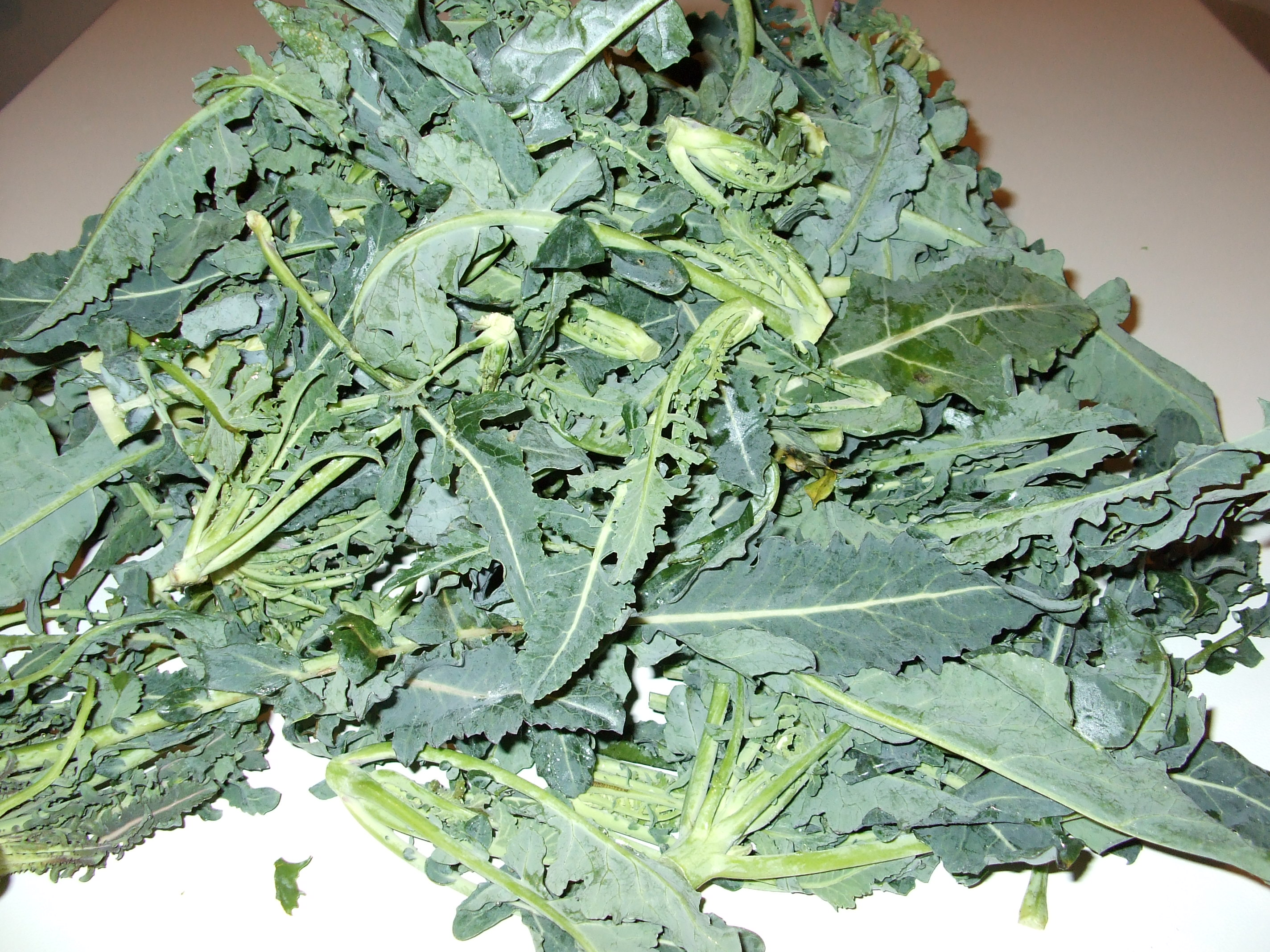 Broccolo fiolaro is a cultivar of Brassica oleracea cultivated in the Creazzo region of the Province of Vicenza.